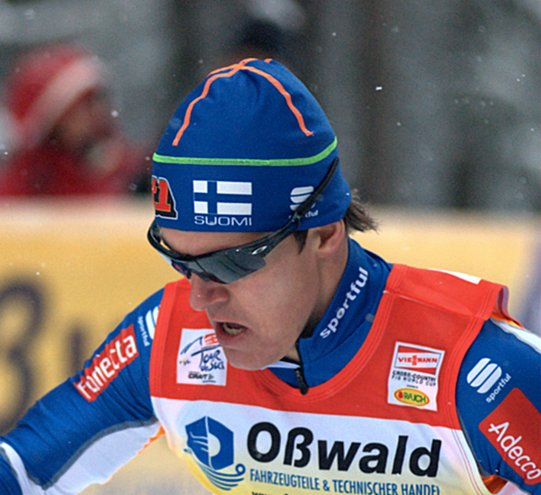 Sami Jauhojärvi at the Tour de Ski 2010 in Oberhof